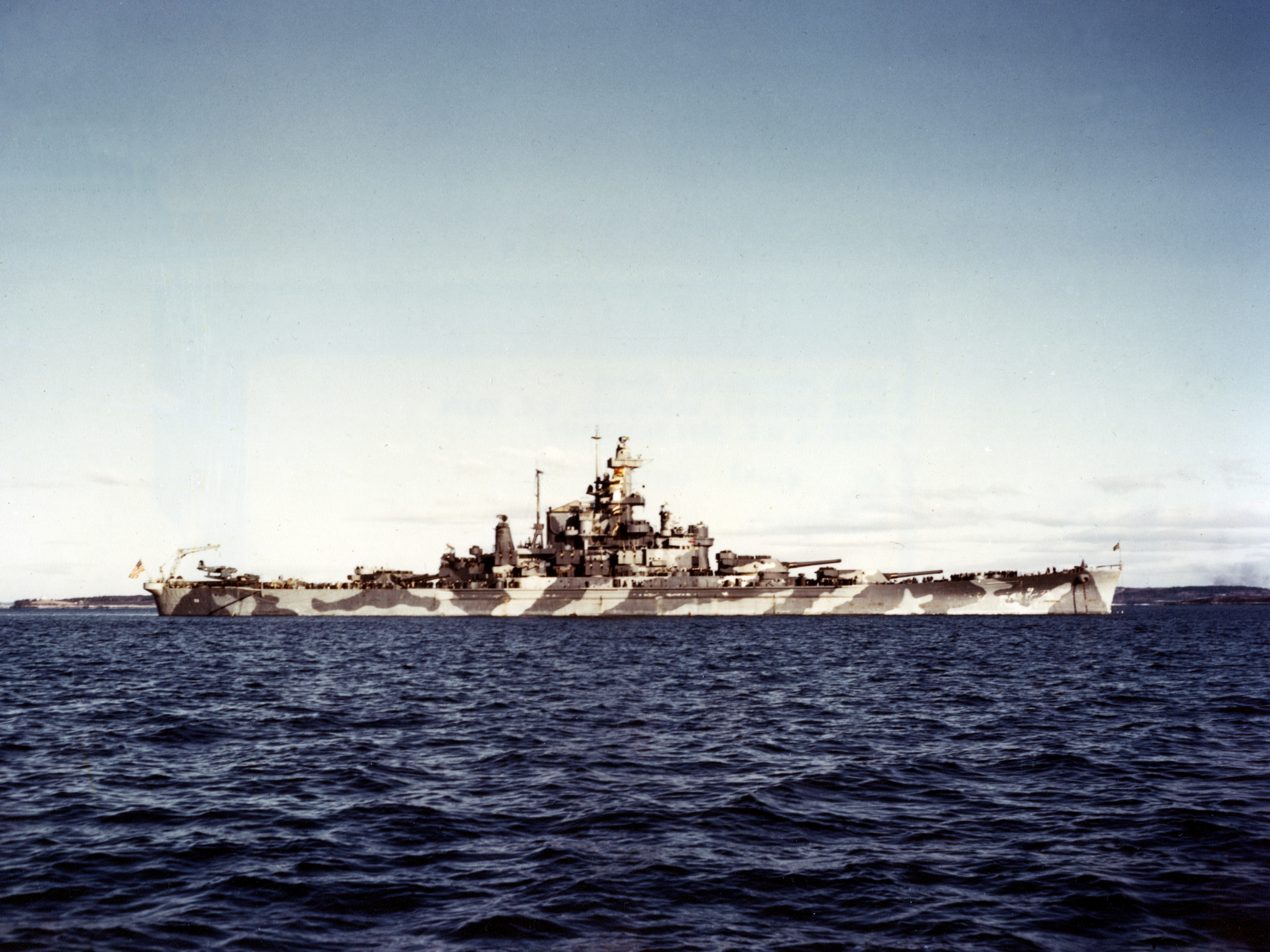 The U.S. Navy battleship USS Alabama (BB-60) in Casco Bay, Maine (USA), during her shakedown period, circa December 1942. Note her Measure 12 (modified) camouflage scheme.